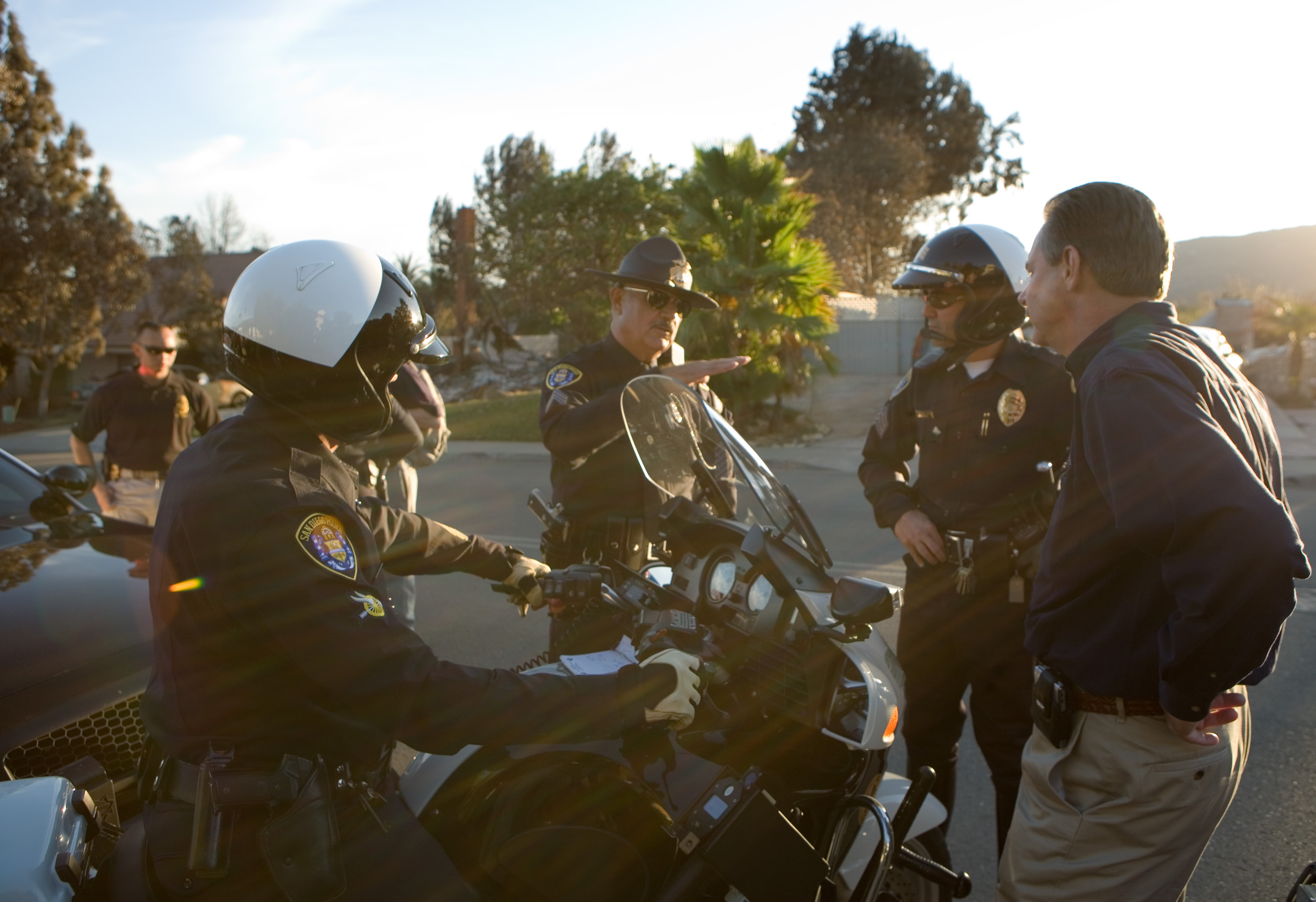 Rancho Bernardo, CA, October 30, 2007 -- FEMA Administrator, Chief Paulison talks with San Diego Police in Rancho Bernardo neighborhood following the recent Southern California wildfires. Andrea Booher/FEMA